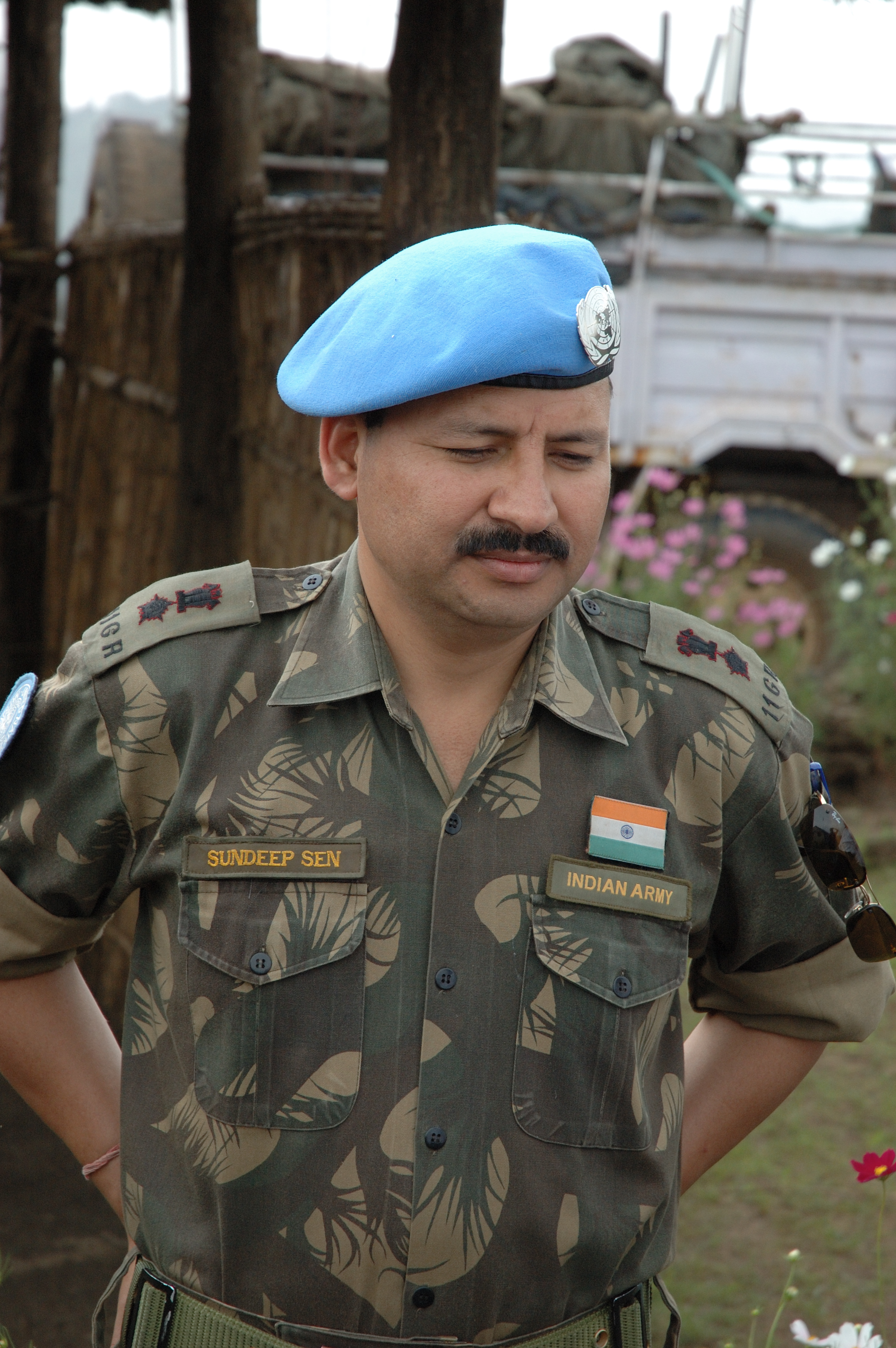 We flew from Nyanzale to Kitchanga with a MONUC Mi8 helicopter landing at a company position manned by D Company, 11th Gurkha Rifles. Despite the mess we made in arriving Lt. Col. Sundeep and his men were very welcoming.